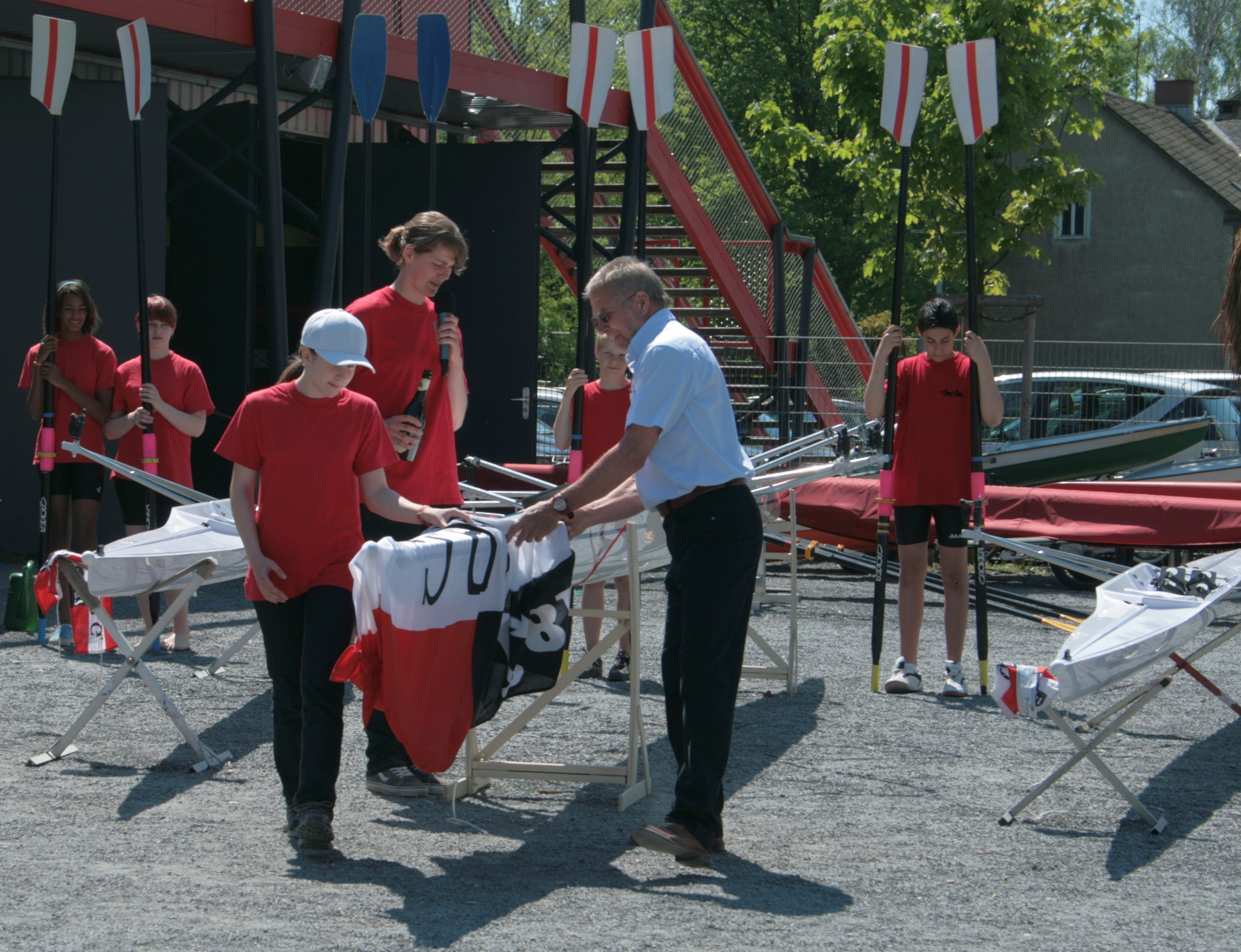 Ship christening of a rowboat in Gießen, Germany by the Gießen Rowing Club of 1877 on the 11th May 2008